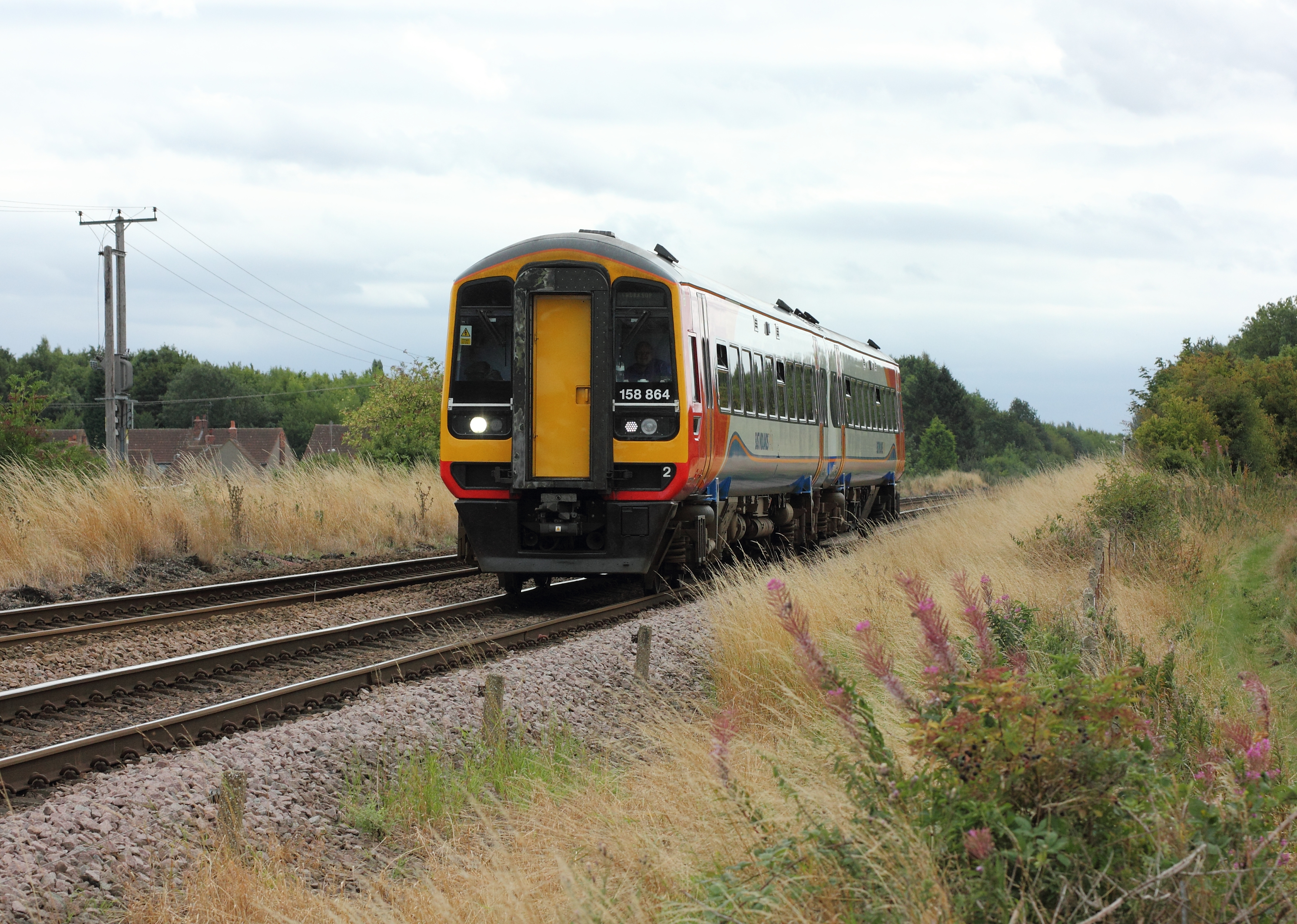 158864 passes Norwood Crossing working a Nottingham - Worksop Robin Hood line service.